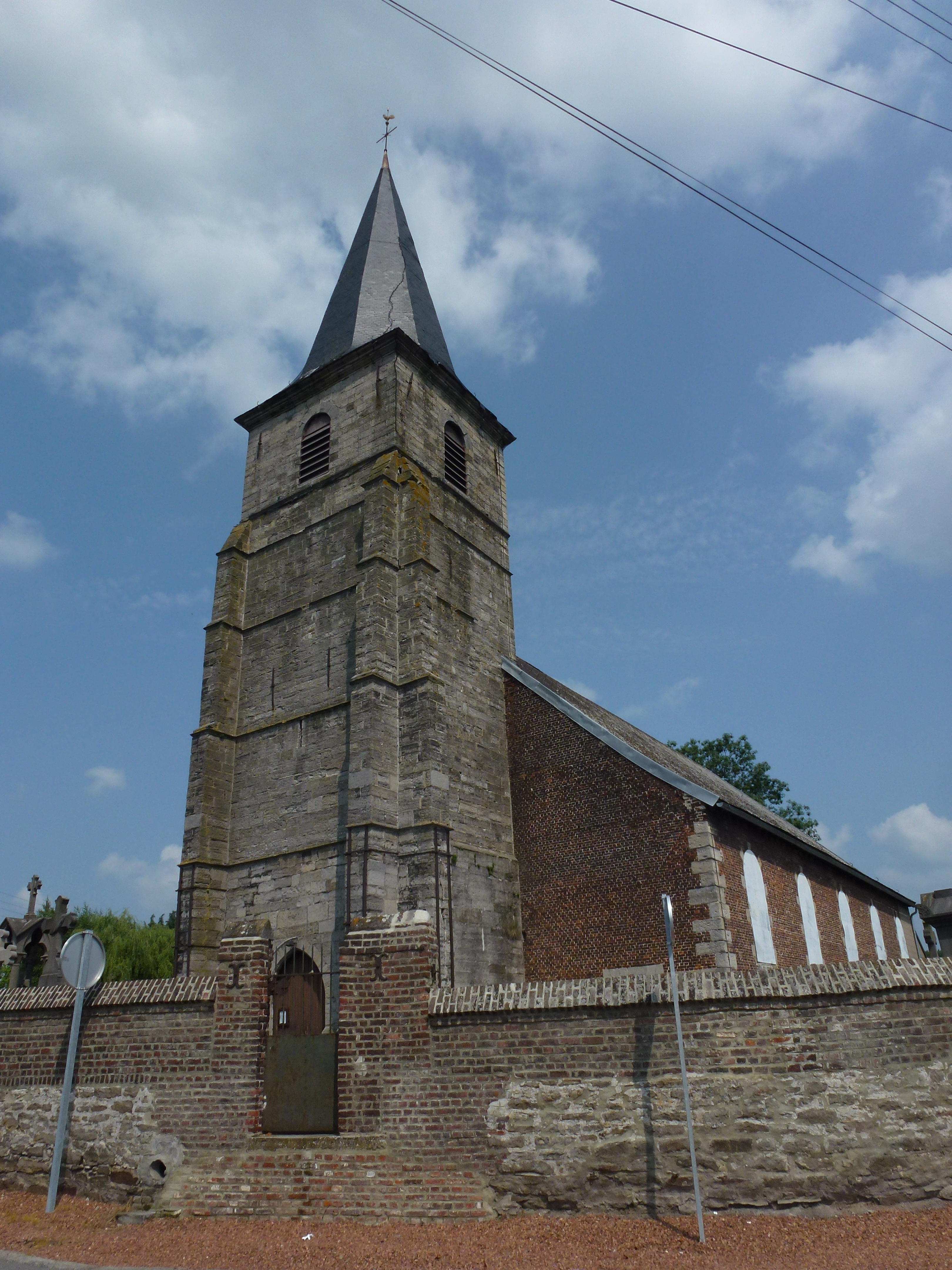 Flines-lès-Mortagne (Nord, Fr)